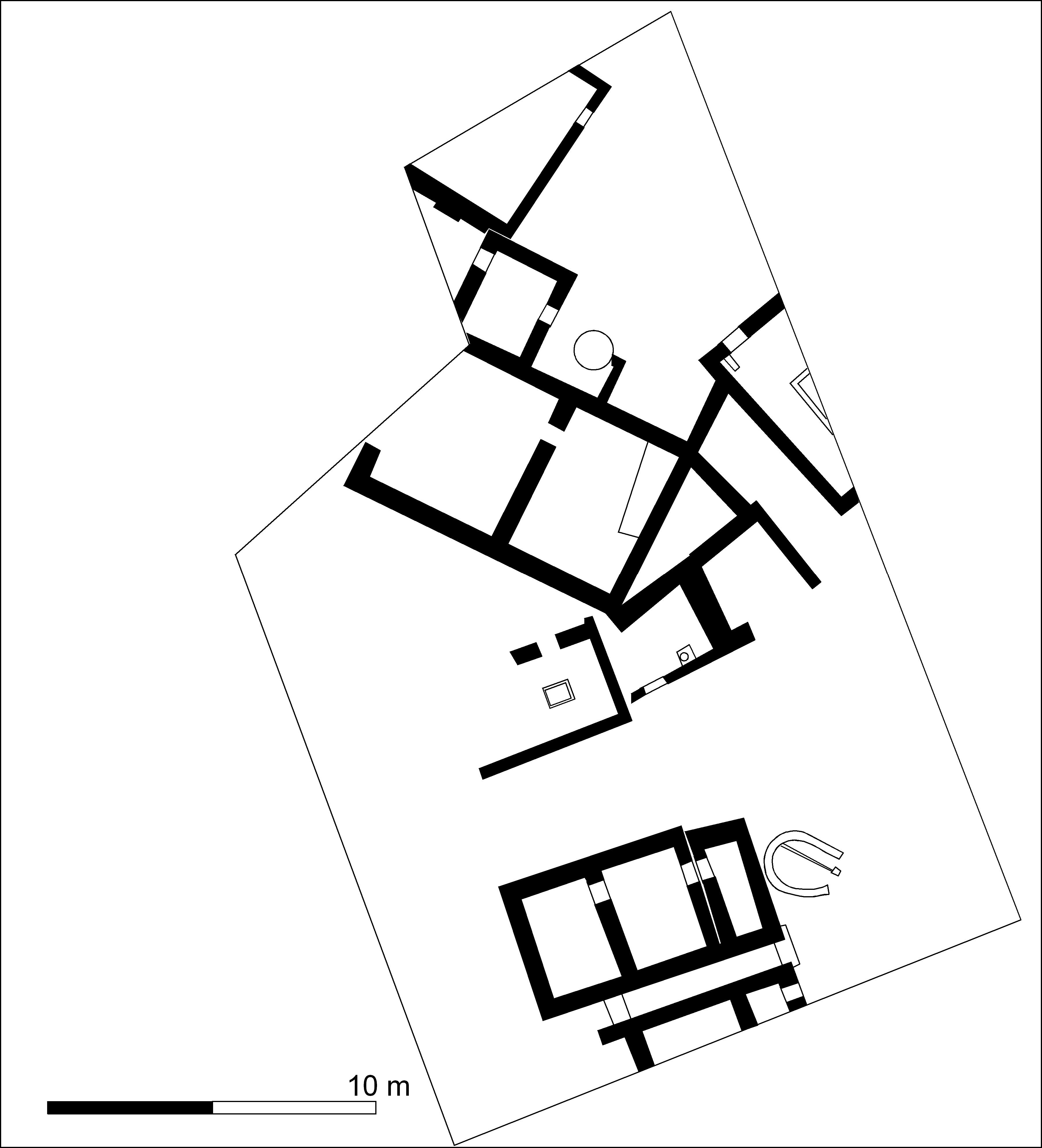 Mundigak, plan of excavation level I.5, redrawn from Jean Marie Casal: Fouilles de Mundigak, Paris 1961, fig. 7